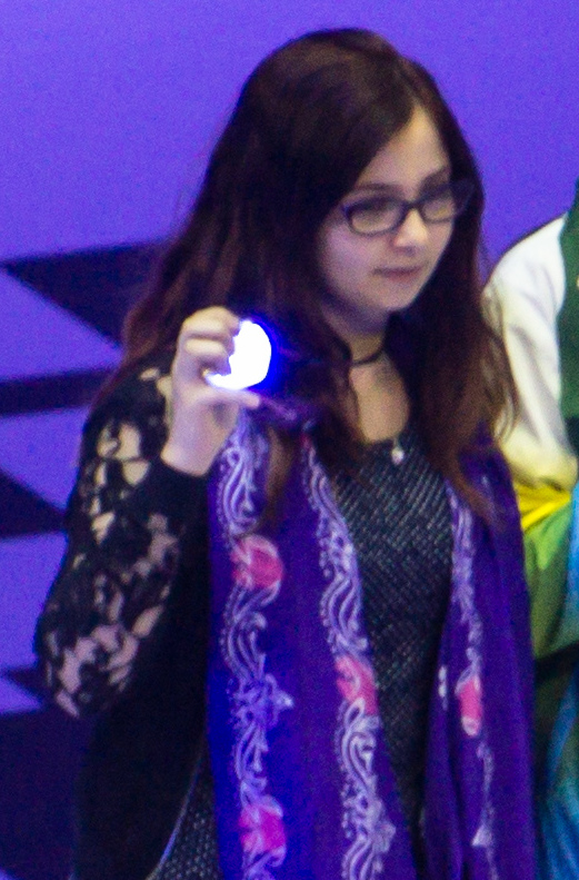 5th board medalists-2